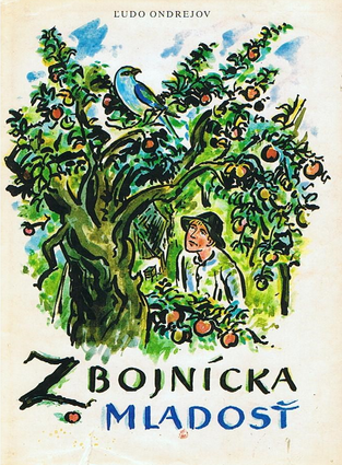 Zbojnícka mladosť